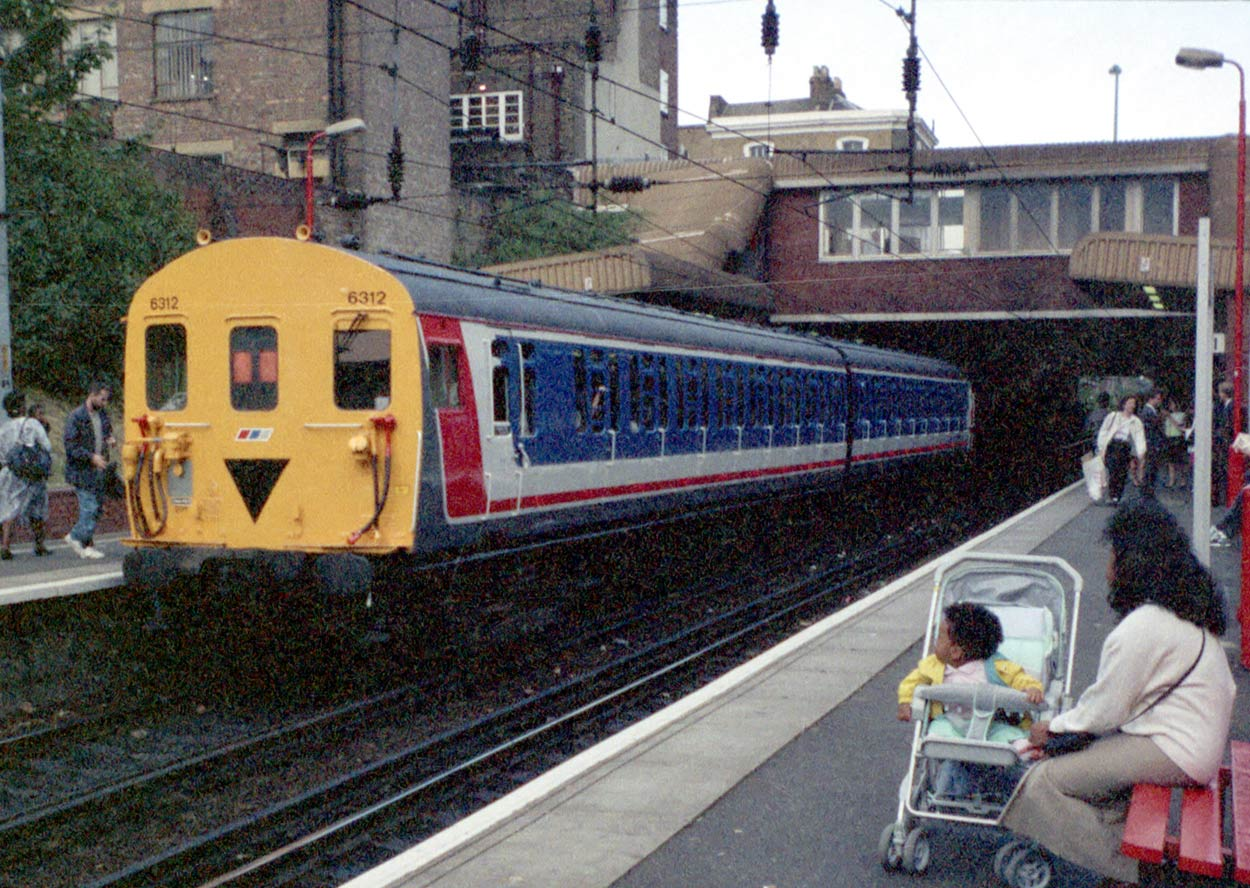 Class 416 train in Network SouthEast livery calls at Dalston Kingsland station, on a North London Line working. The NLL is both 25kV overhead AC and 750V third-rail electrified at this point. Whilst I do not recall exactly when I took this photograph I think it would have been in either the late 1980s or early 1990s.